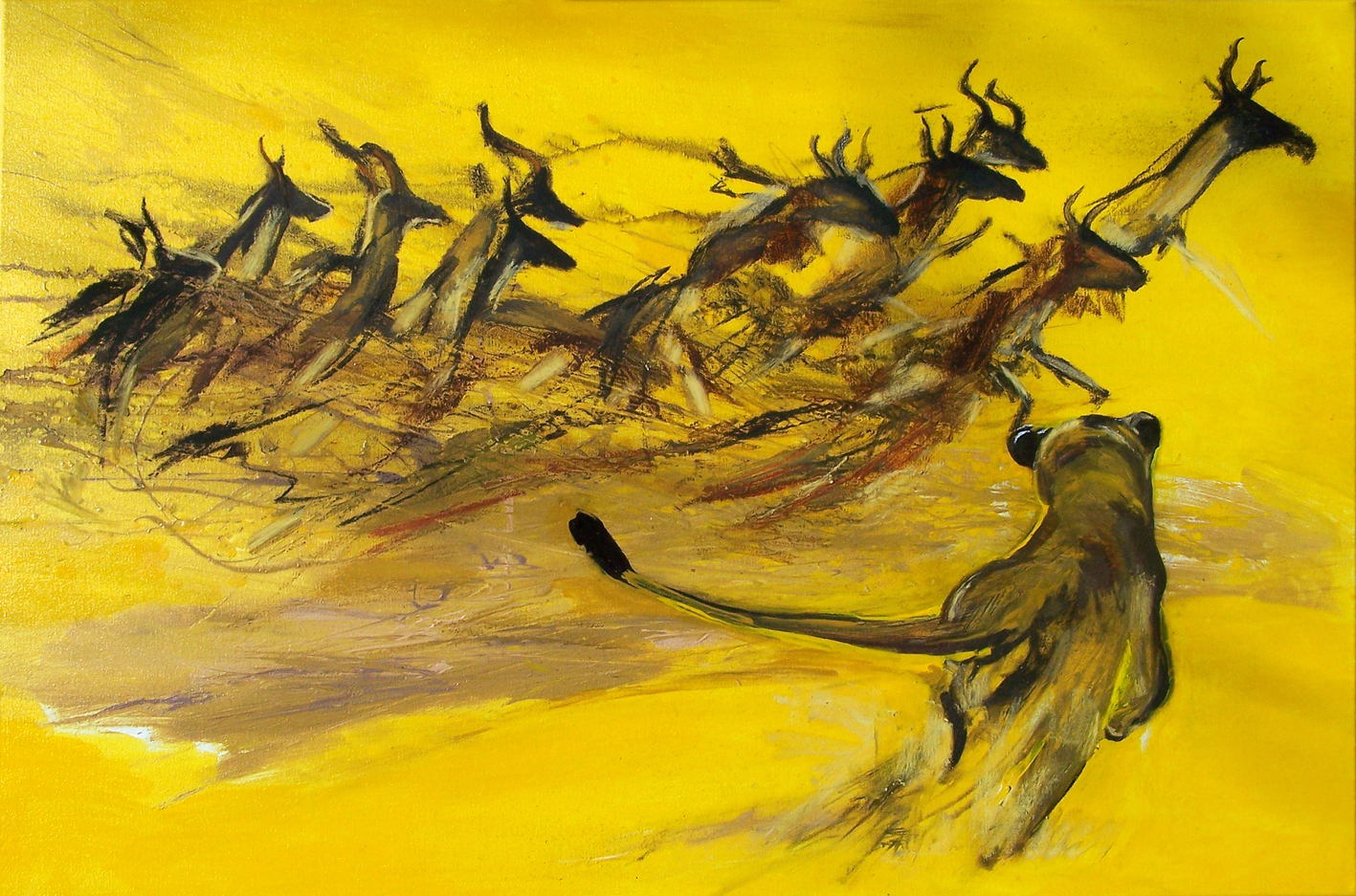 The Hunt.